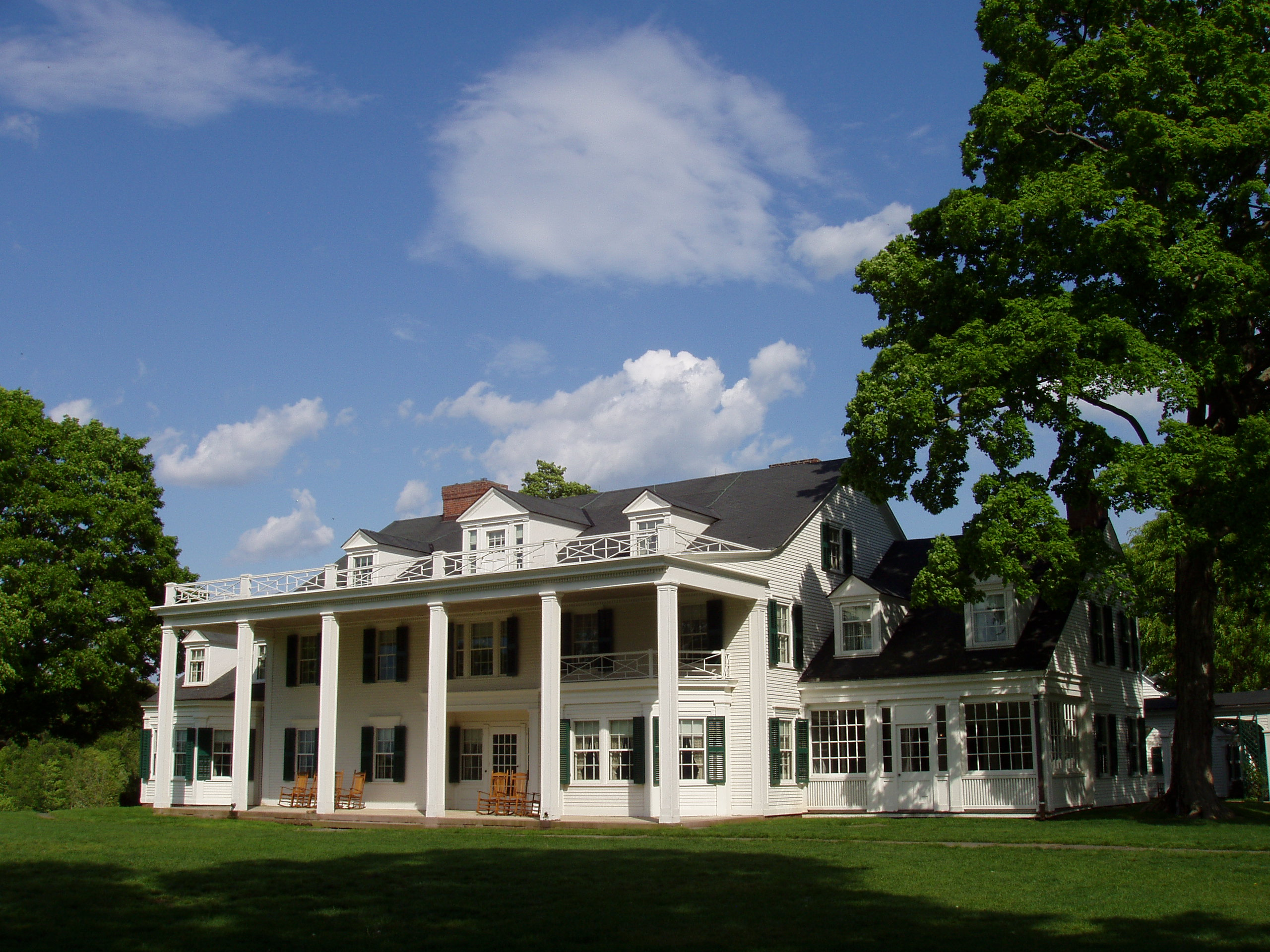 Hill-Stead Museum, Farmington, Connecticut, USA. West facade of main house.